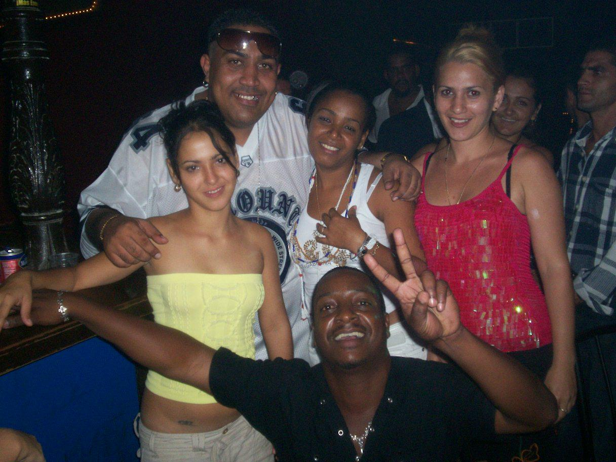 Eduardo Mora Hernández (Eddy from Eddy-K group) and fans, after a concert in "Casa de la Música" (Music House). Havana, Cuba, October 10, 2006.